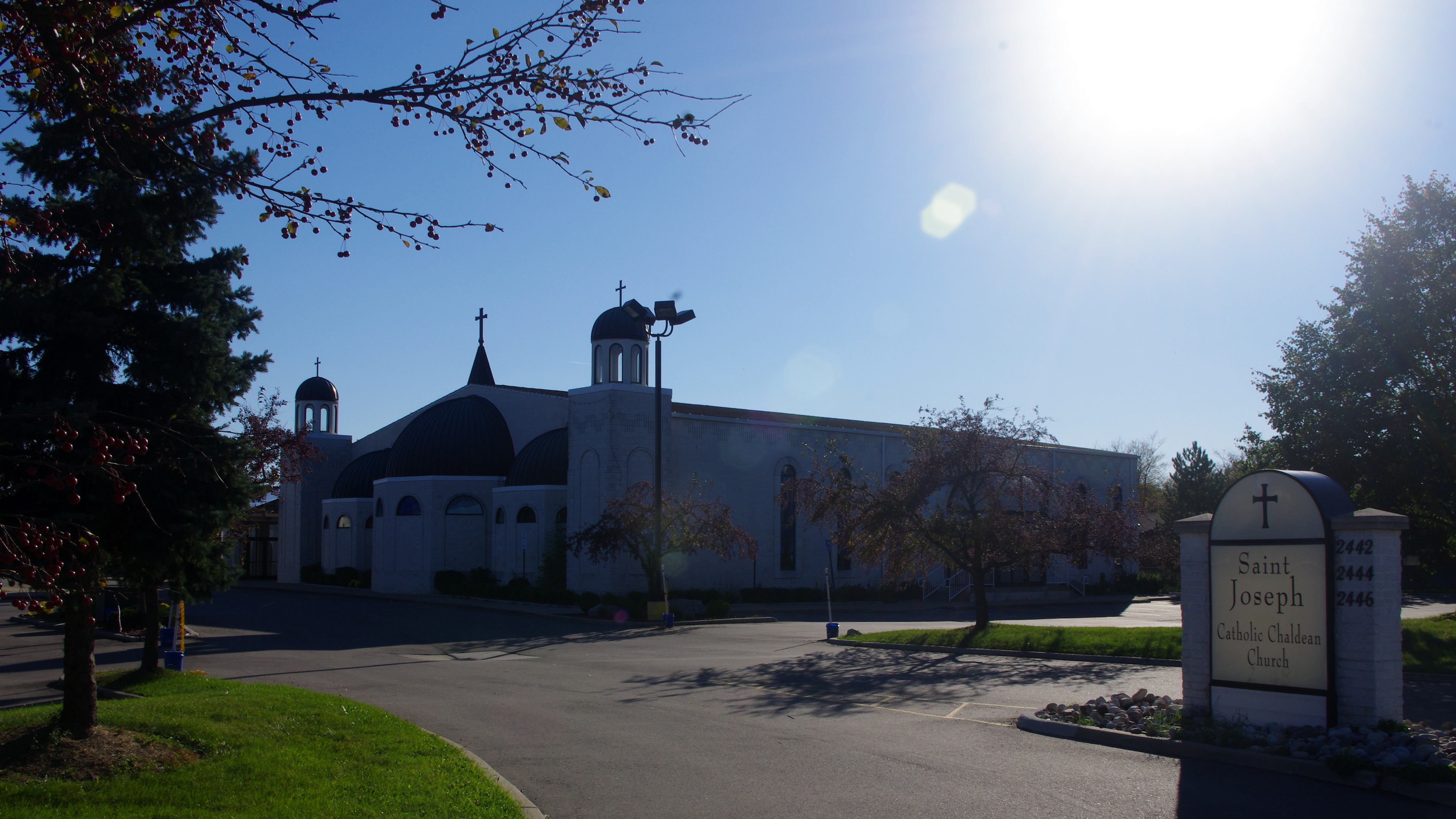 Saint Joseph Chaldean Catholic Church (Troy, Michigan) - exterior